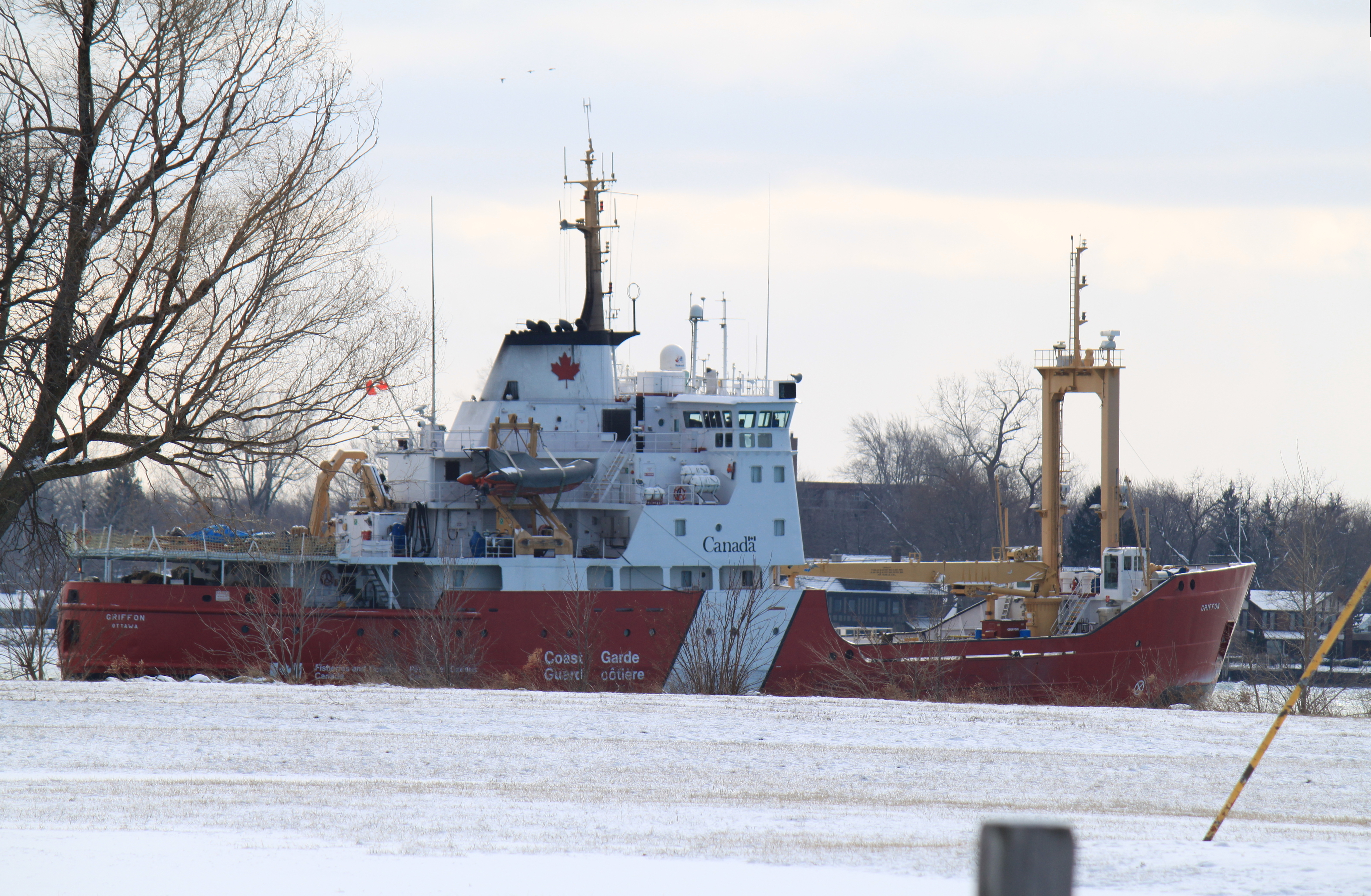 The Canadian Coast Guard patrolling in the Griffon on the Detroit River near Belle Isle. January 2011